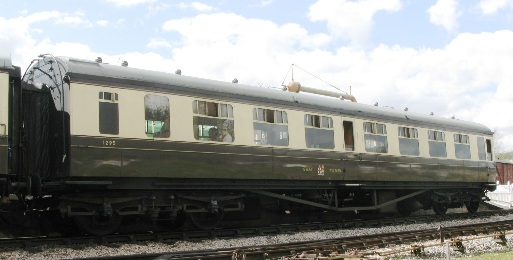 Diagram C74 Great Western Railway Third Open number 1295. This was excursion stock built c.1937. Preserved on the South Devon Railway.